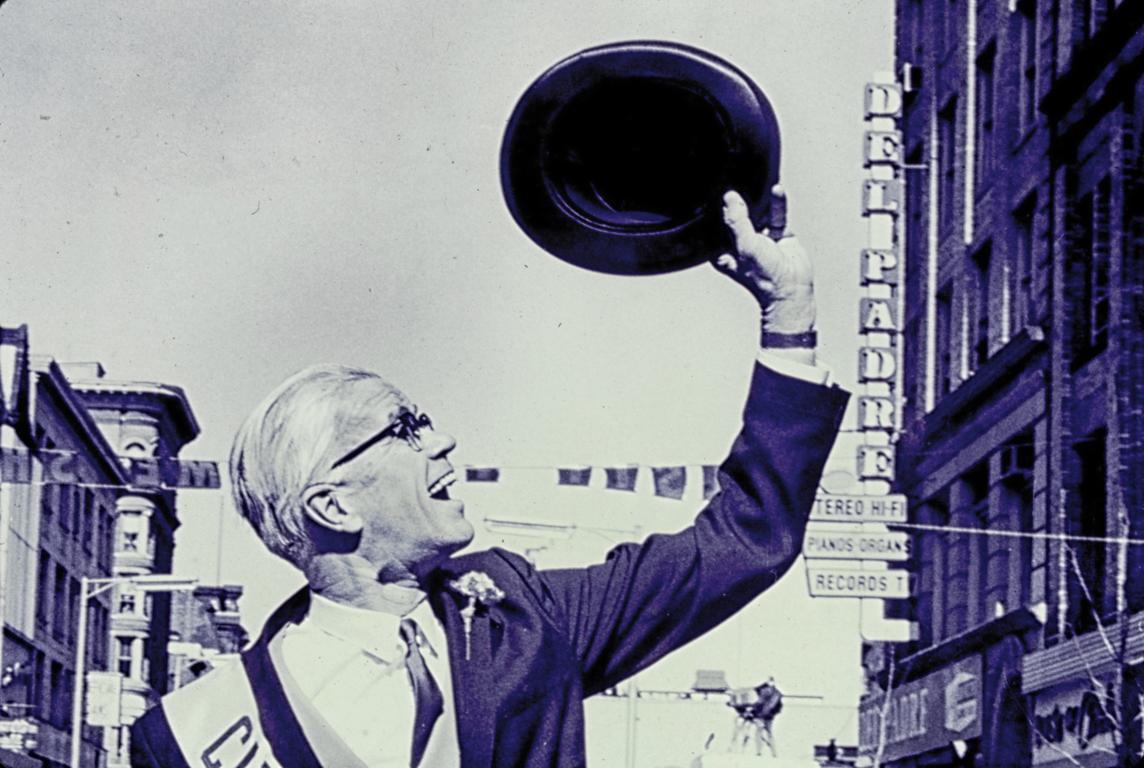 Robert E. Barrett Jr., president of Holyoke Water Power Company, at the 1969 Holyoke Saint Patrick's Day Parade, marching as recipient of the Citizen's Award.